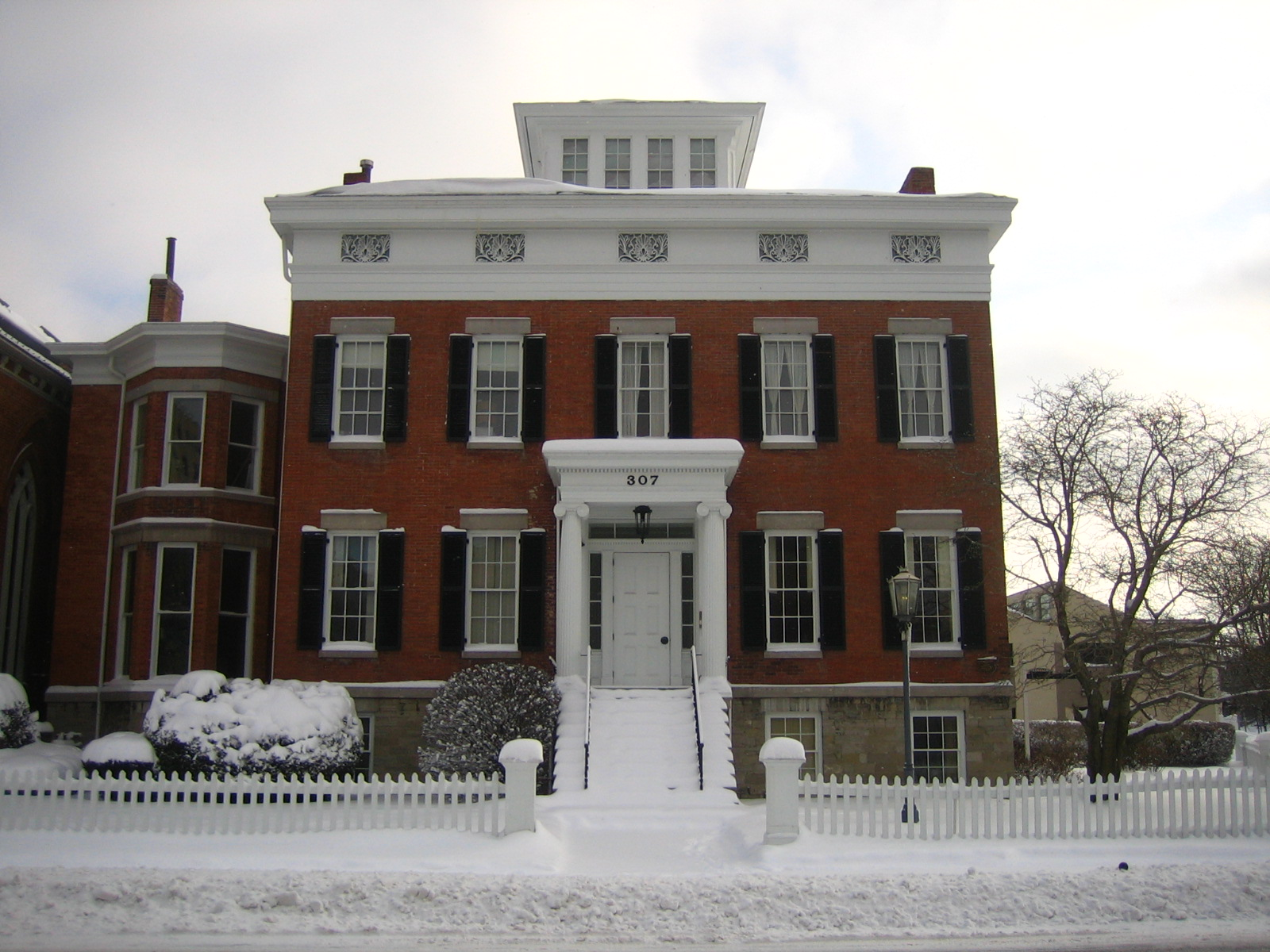 Hamilton White House, Syracuse, New York. Photo 4.